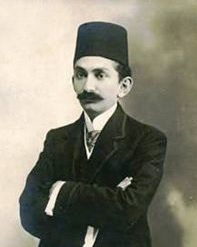 Prince Sabahattin: His mother is Seniha Sultana; daughter of Abdülmecit (Ottoman sultan) and she is sister of Abdul Hamid II. His father is Damat Mahmut Celalettin Pasha; son of Gürcü Halil Rifat Pasha